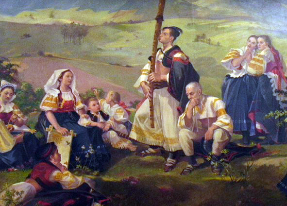 Detail of the iron curtain in Slovak National Theatre in Bratislava with painting by Martin Benka. Taken by me.